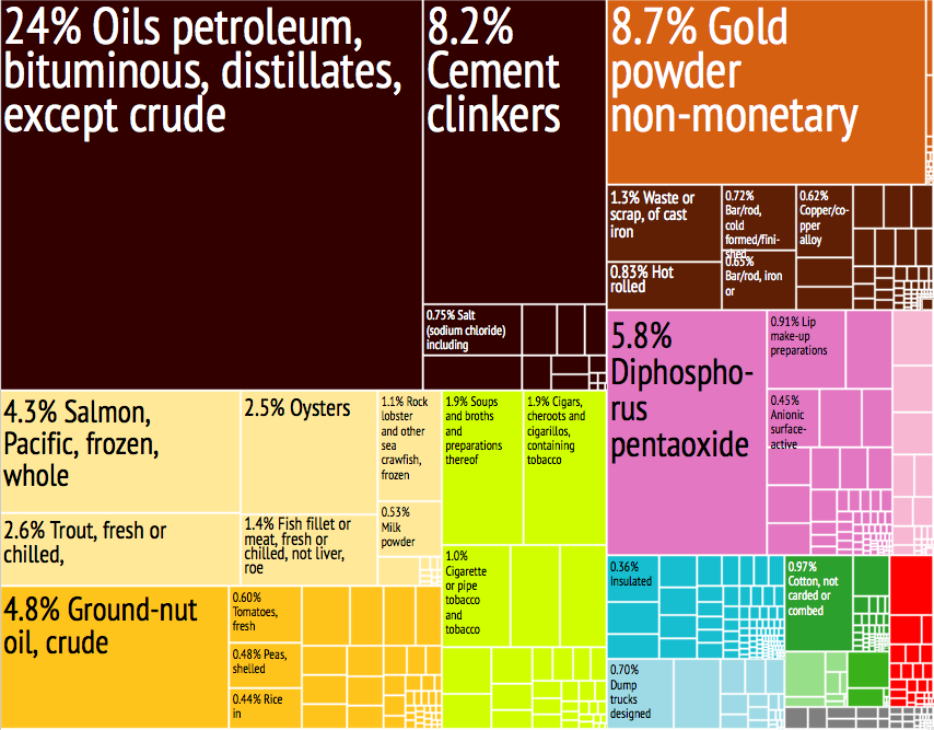 Senegal Export Treemap from MIT Harvard Economic Complexity Observatory